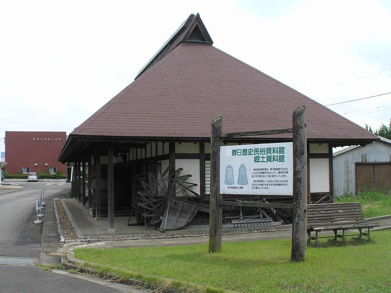 Local history museum Kasuga, Hyōgo Japan